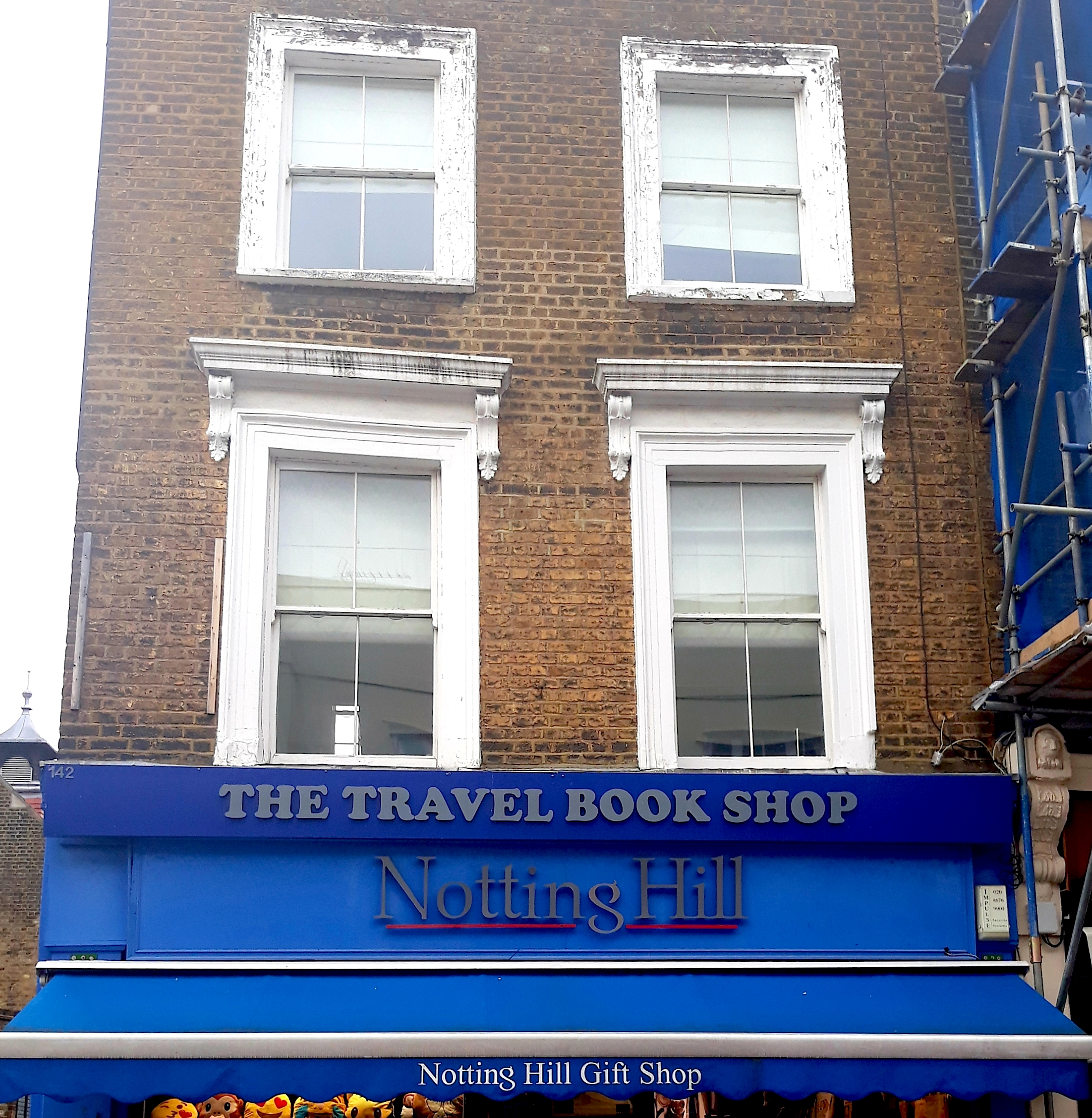 Travel Book Shop gift shop at 142 Portobello Rd, Notting Hill, London W11 2DZ